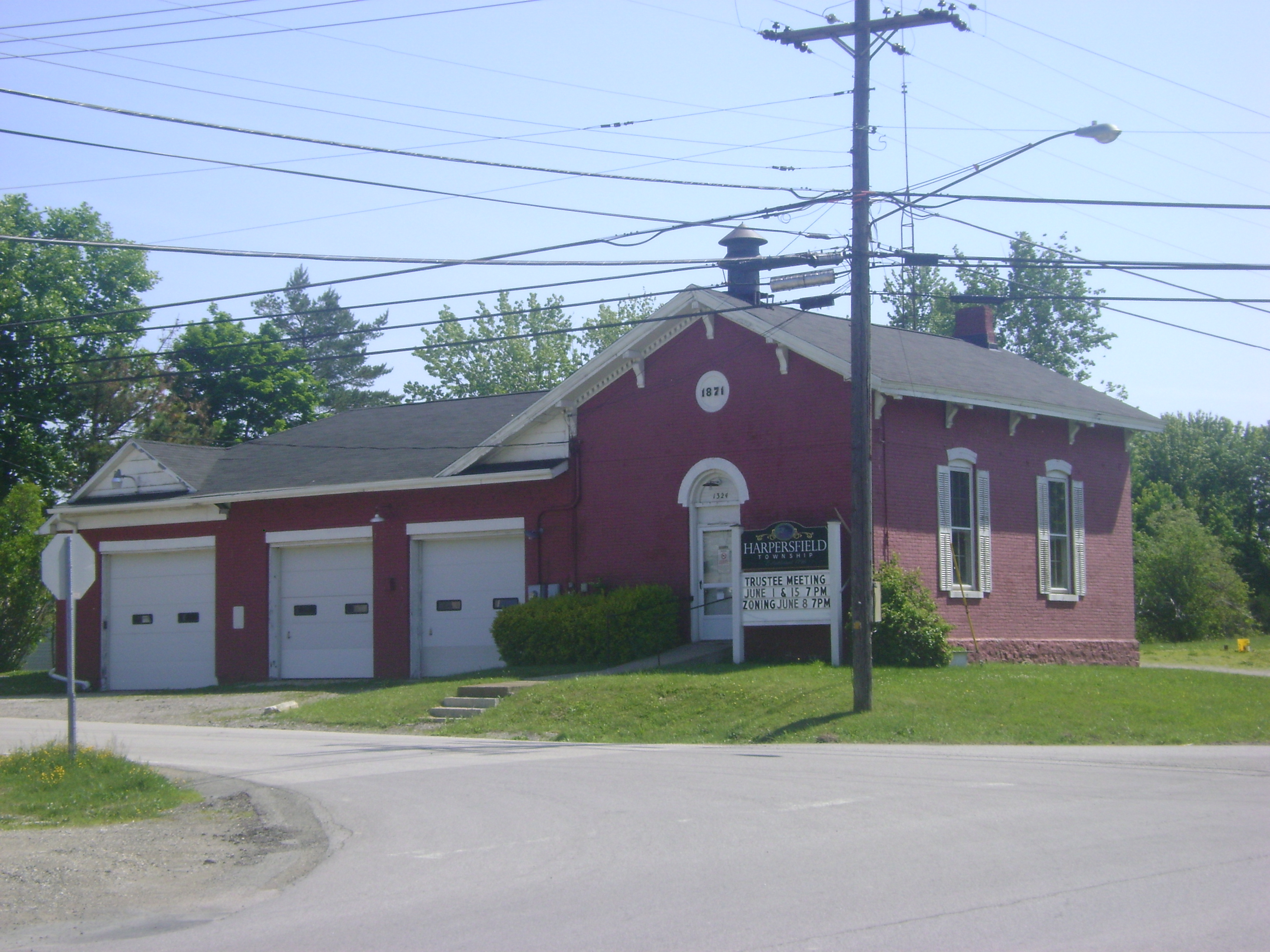 The town hall of Harpersfield Township, Ashtabula County, Ohio